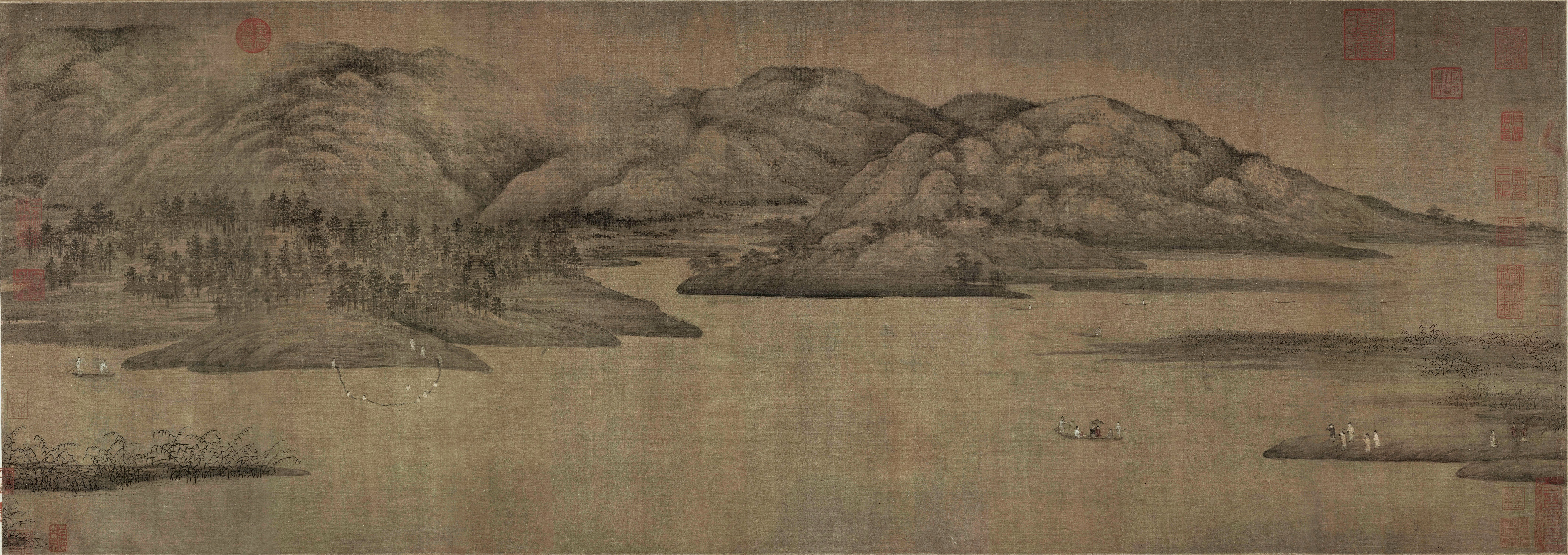 Dong Yuan. Xiao and Xiang Rivers. Located at the Palace Museum, Beijing.